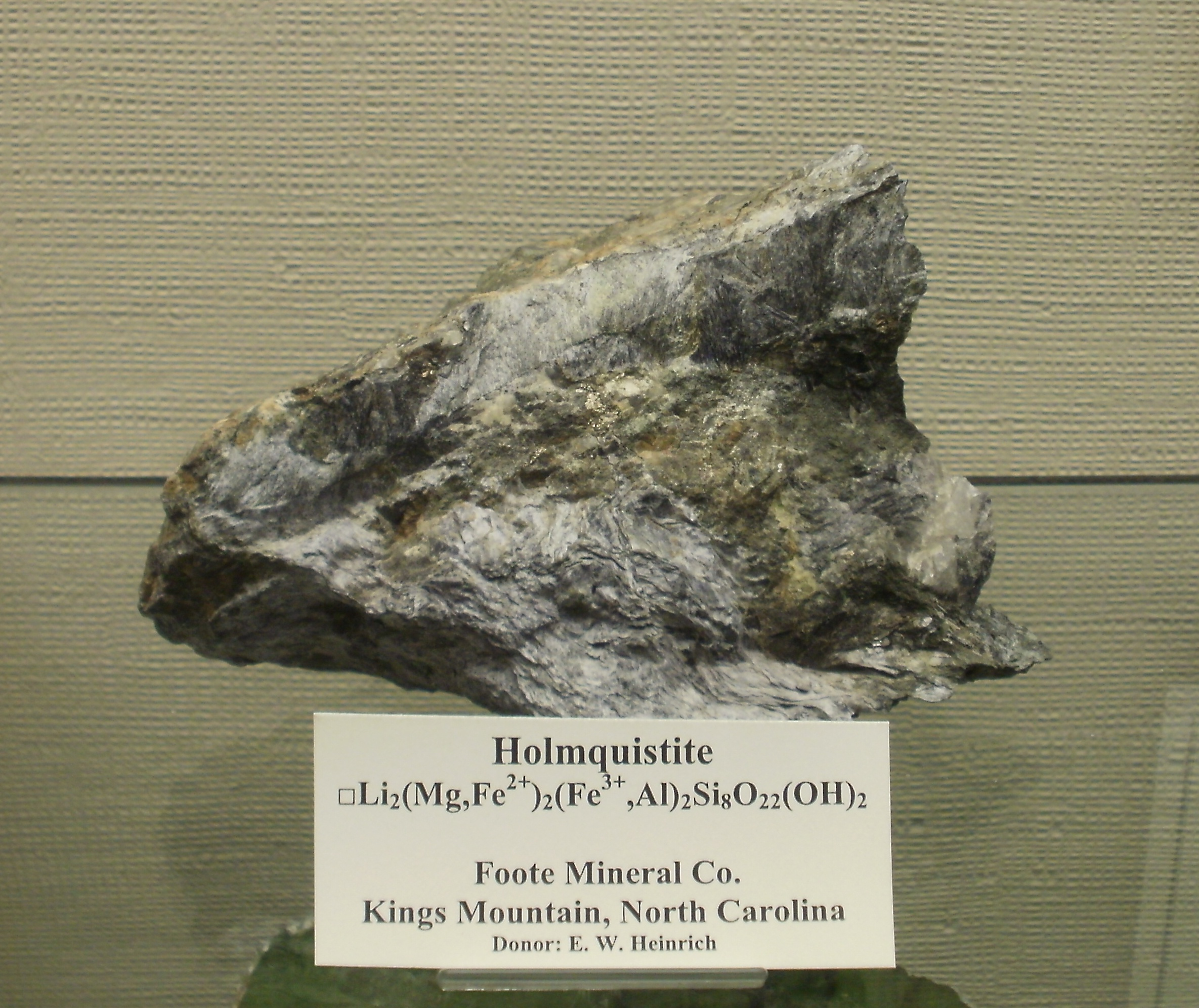 Holmquistite from the Foote Mineral Co., Kings Mountain, North Carolina. Held at the A. E. Seaman Mineral Museum.